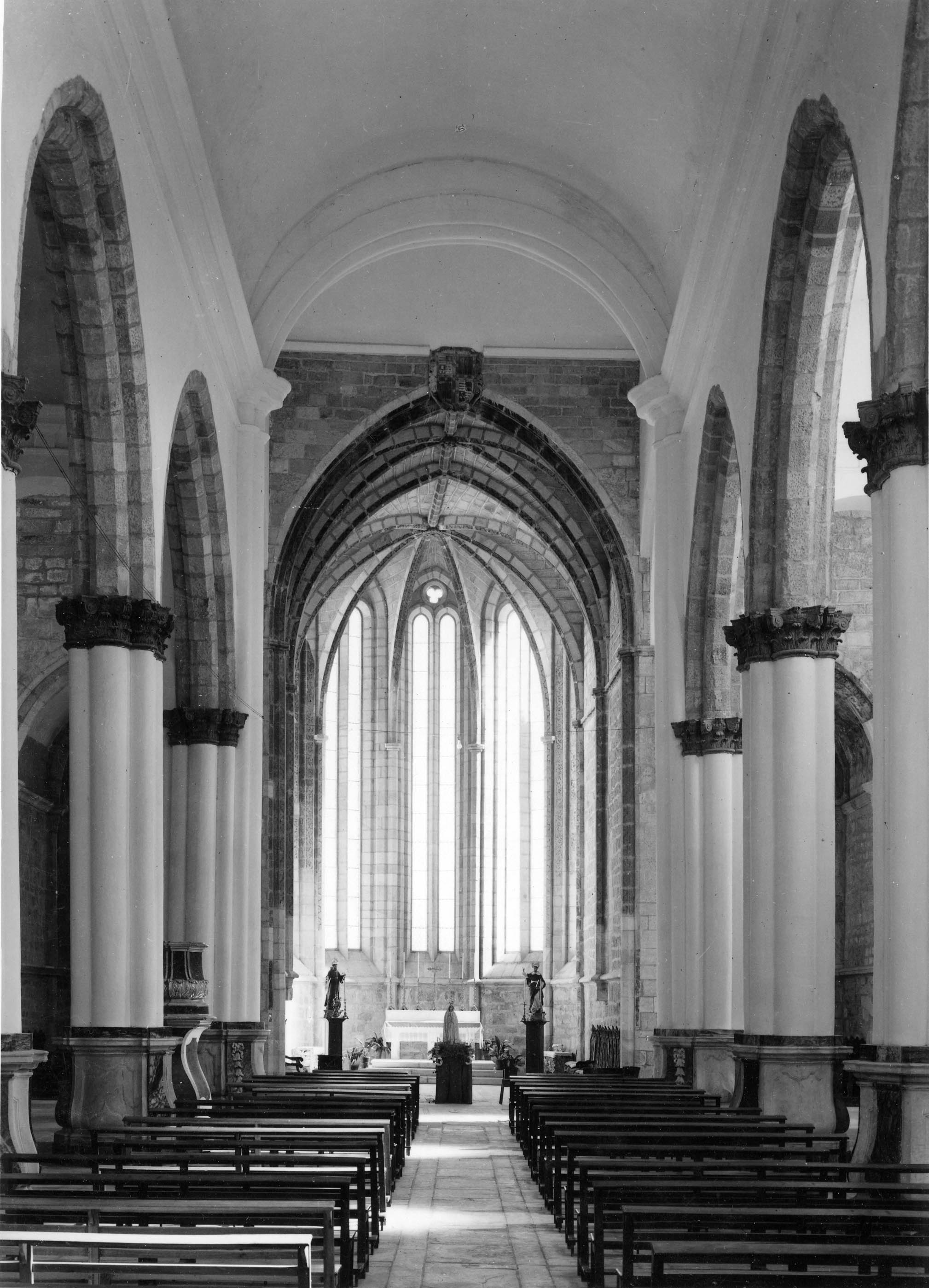 Interior of S. Domingos Church in Elvas